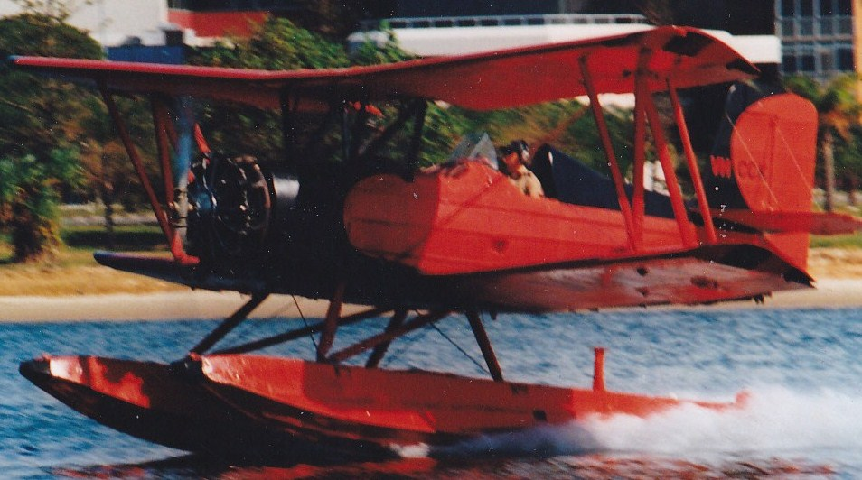 G164 Agcat on floats Gold coast